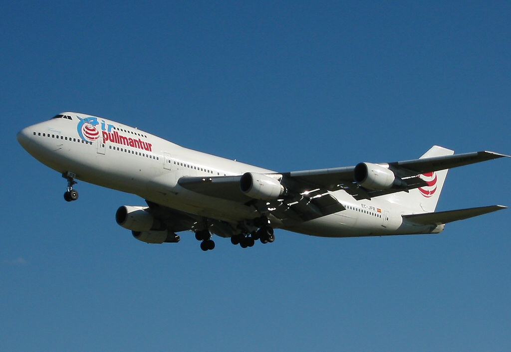 Air Pullmantur Boeing 747-200 landing to Helsinki-Vantaa airport